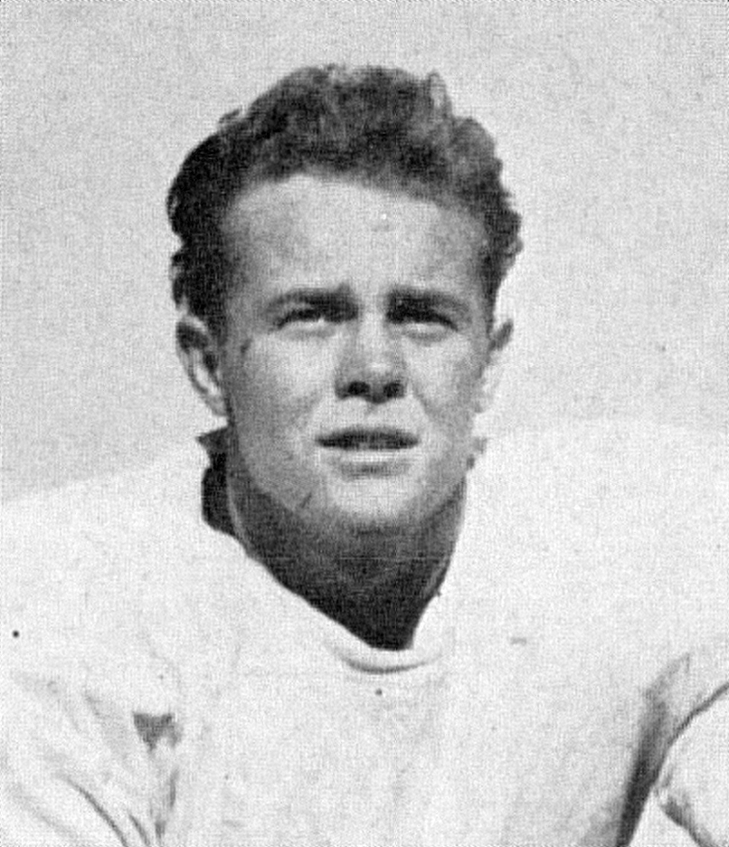 Earle Parson c. 1944